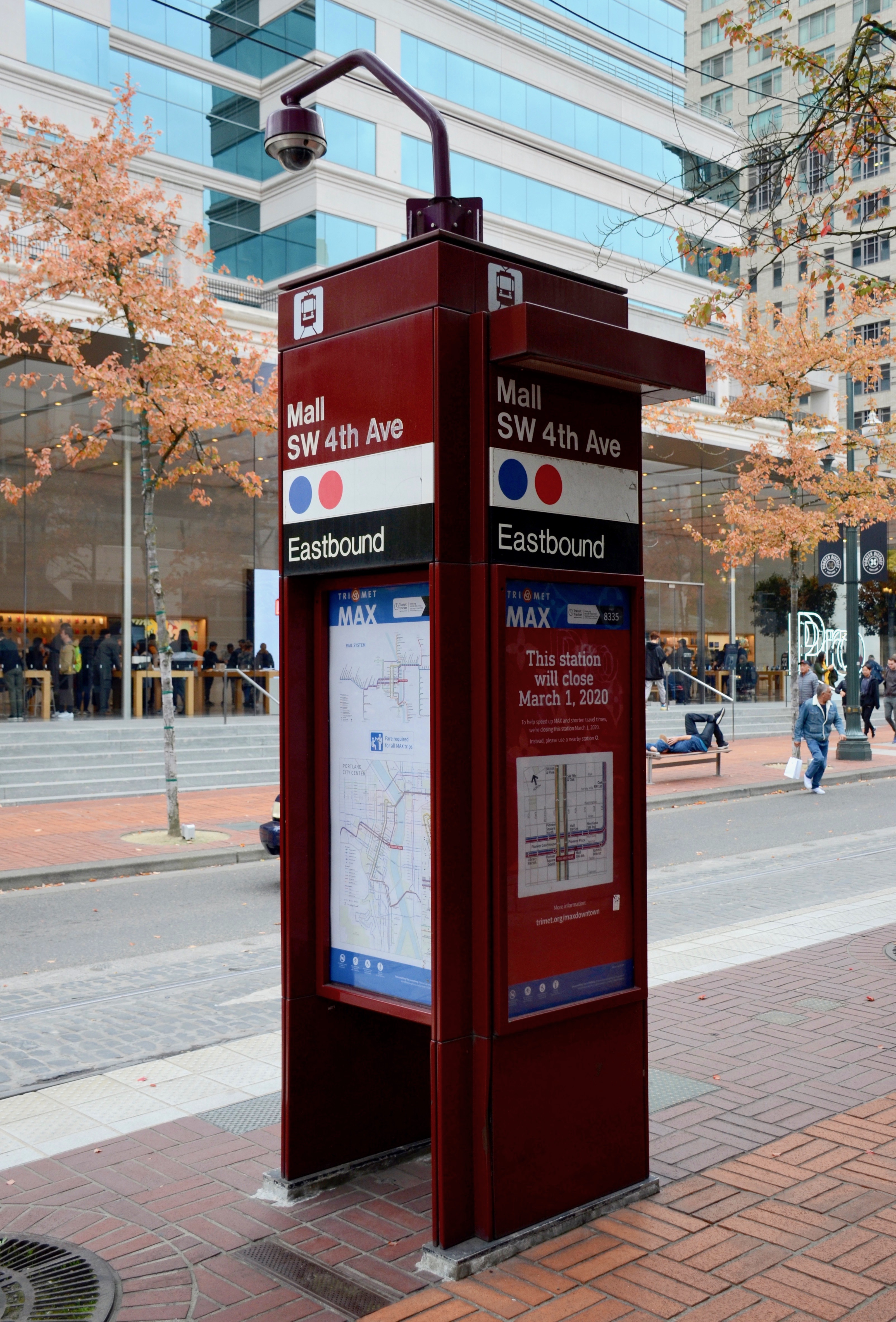 An information 'pylon' at the Mall/SW 4th Avenue MAX station, on SW Yamhill Street at 4th Avenue in downtown Portland, with notice of its upcoming closure (set for March 1, 2020).